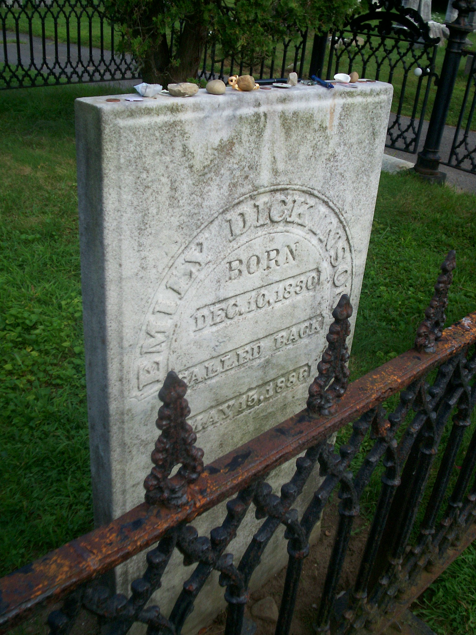 Grave of Emily Dickinson in West Cemetery, Amherst, Massachusetts.